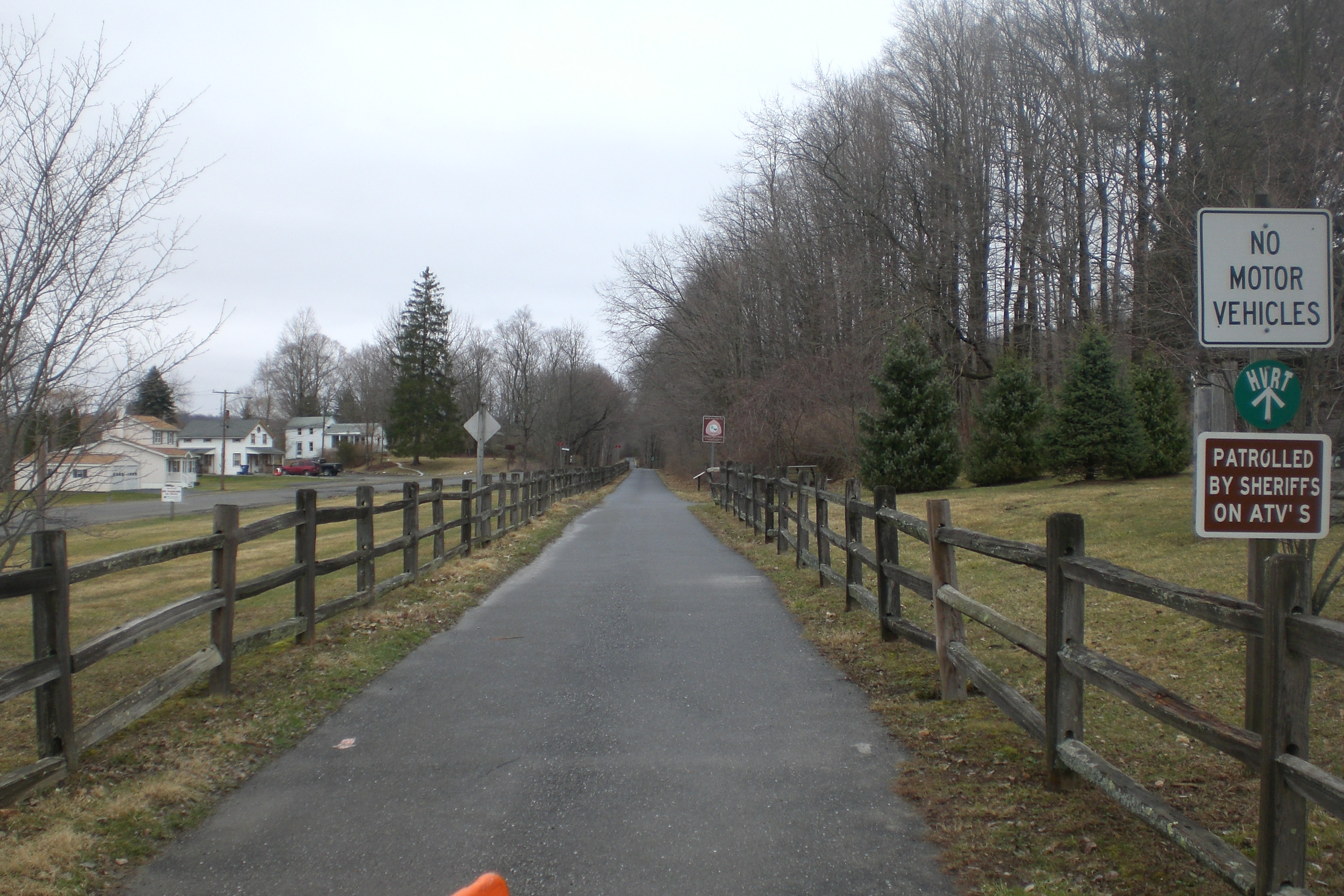 The Harlem Valley Rail Trail near the former site of Sharon Station in Amenia, New York. Originally uploaded by English836 as File:Sharon Station NY.JPG, then replaced with an actual image of the station house, which is now a private residence.